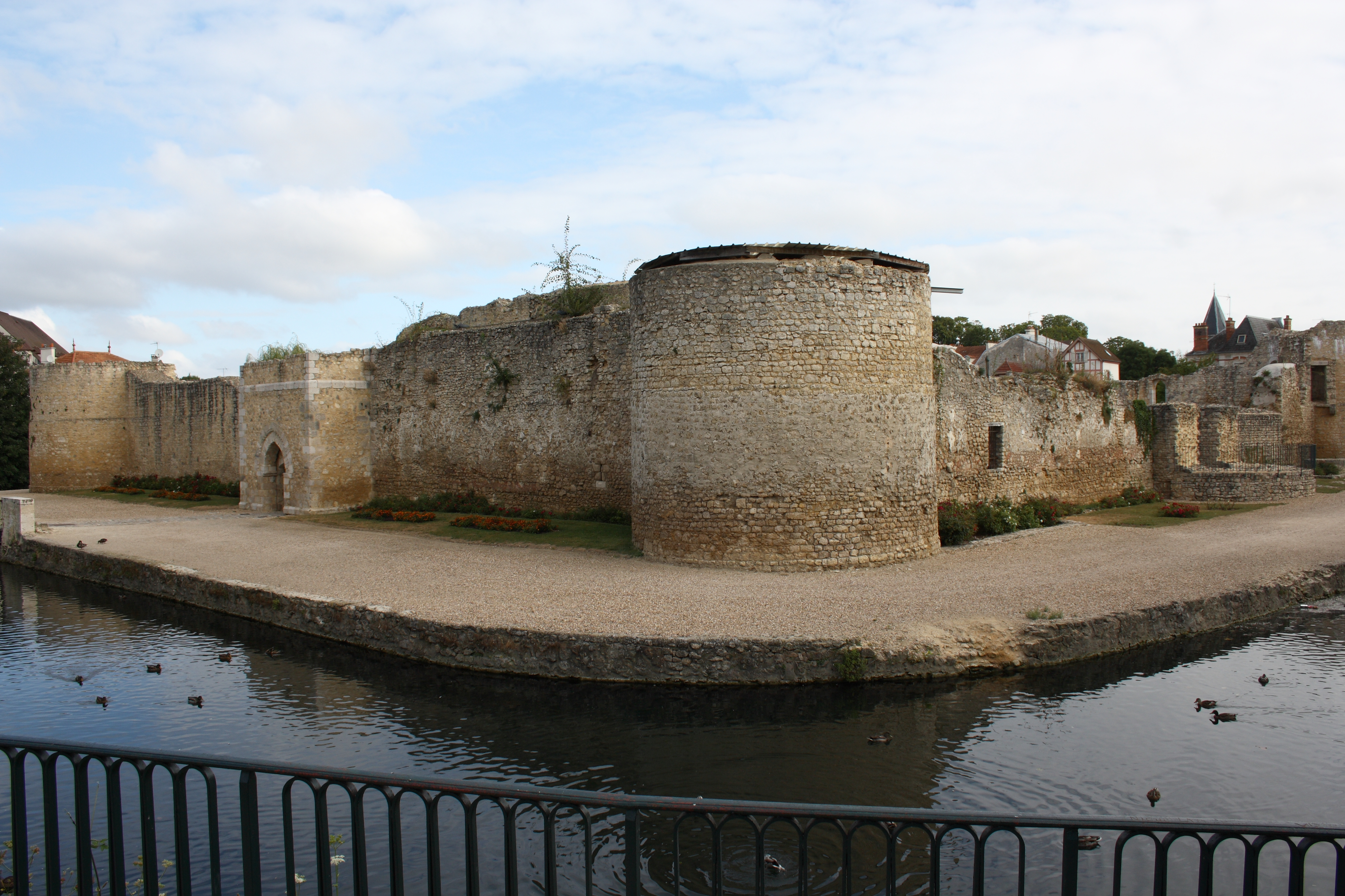 Castle in Brie-Comte-Robert (Seine-et-Marne, Île-de-France)